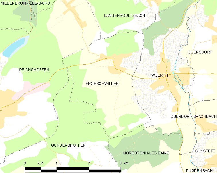 Map of French municipality